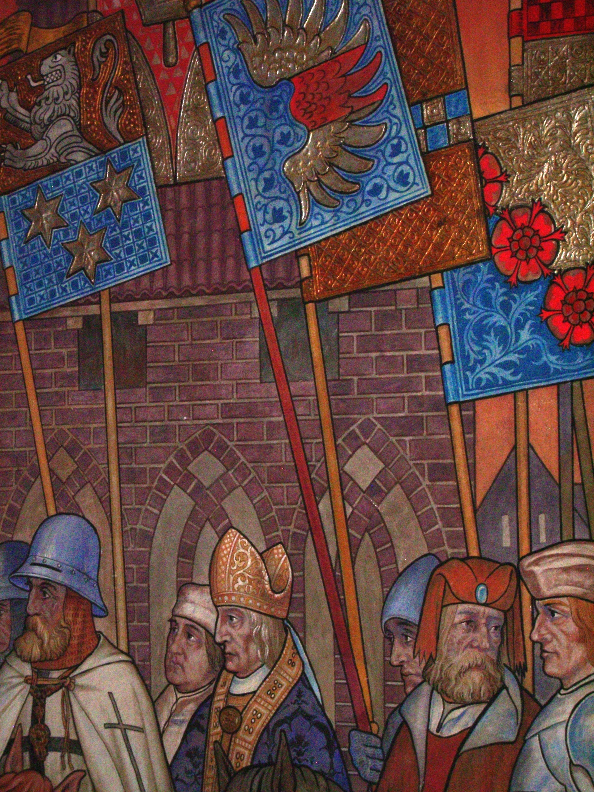 Photo taken inside Lübben Castle, Germany